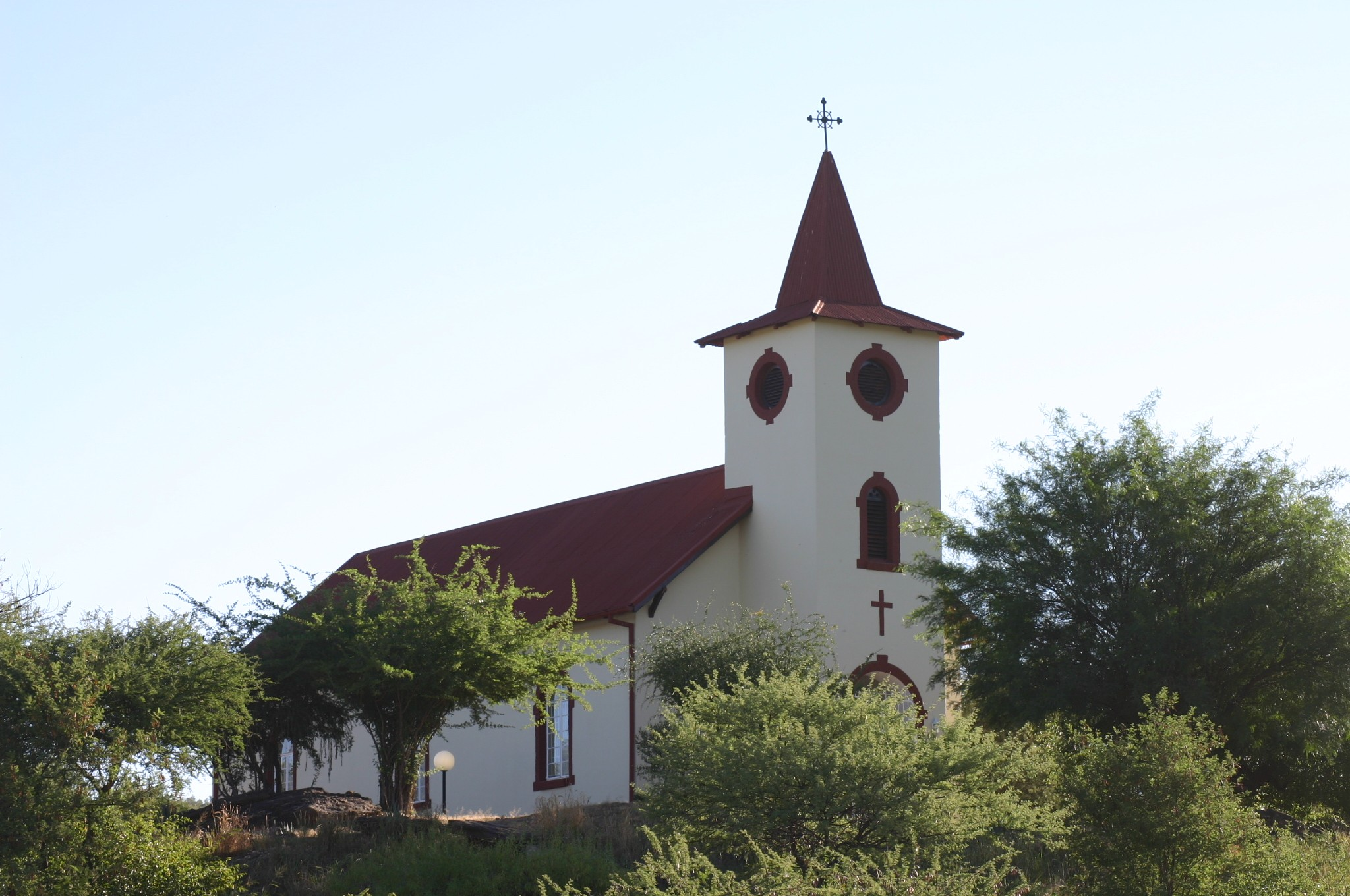 Luke Church at Windhoek, Namibia